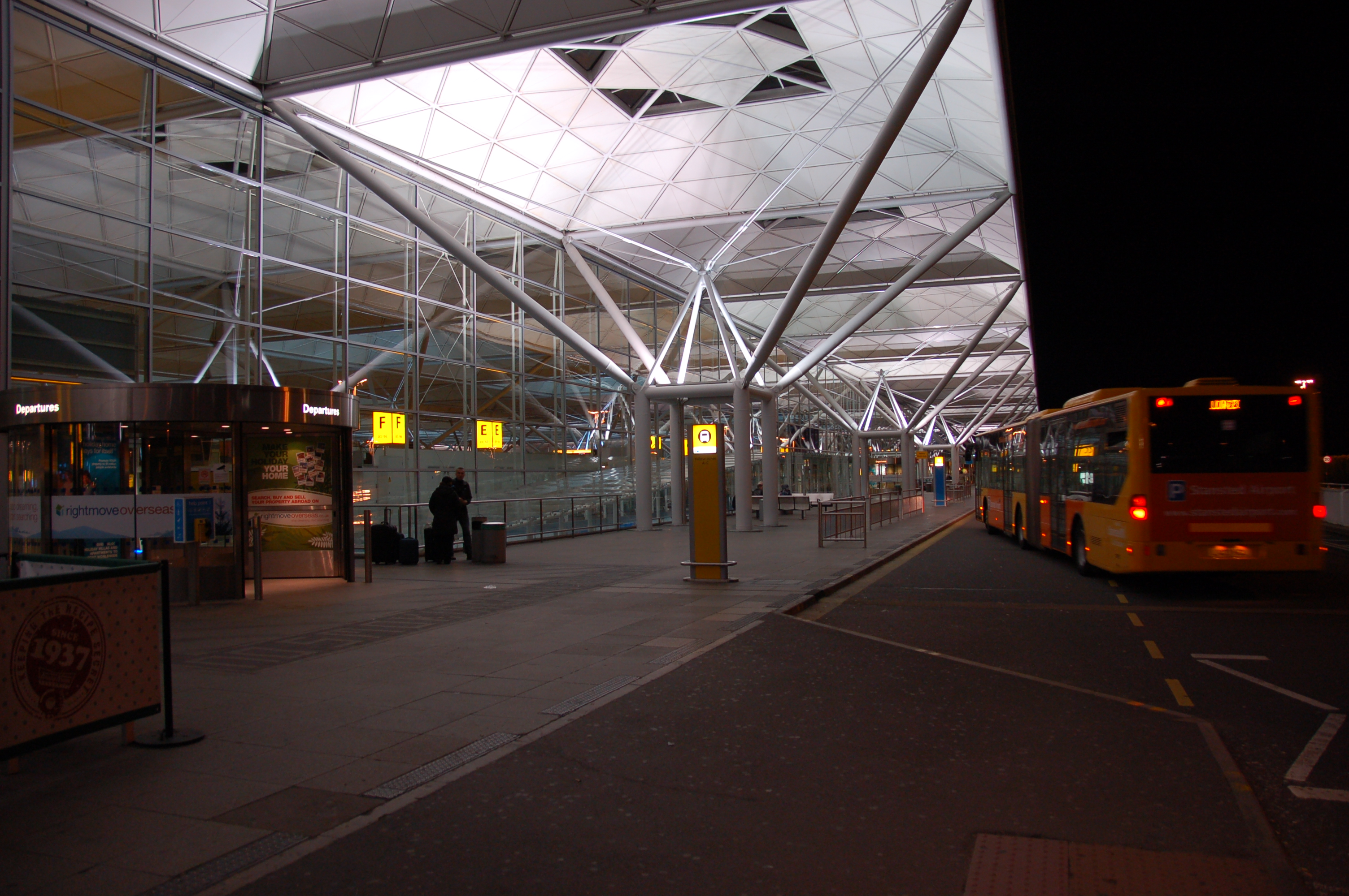 entrace of Stansted International Airport, UK